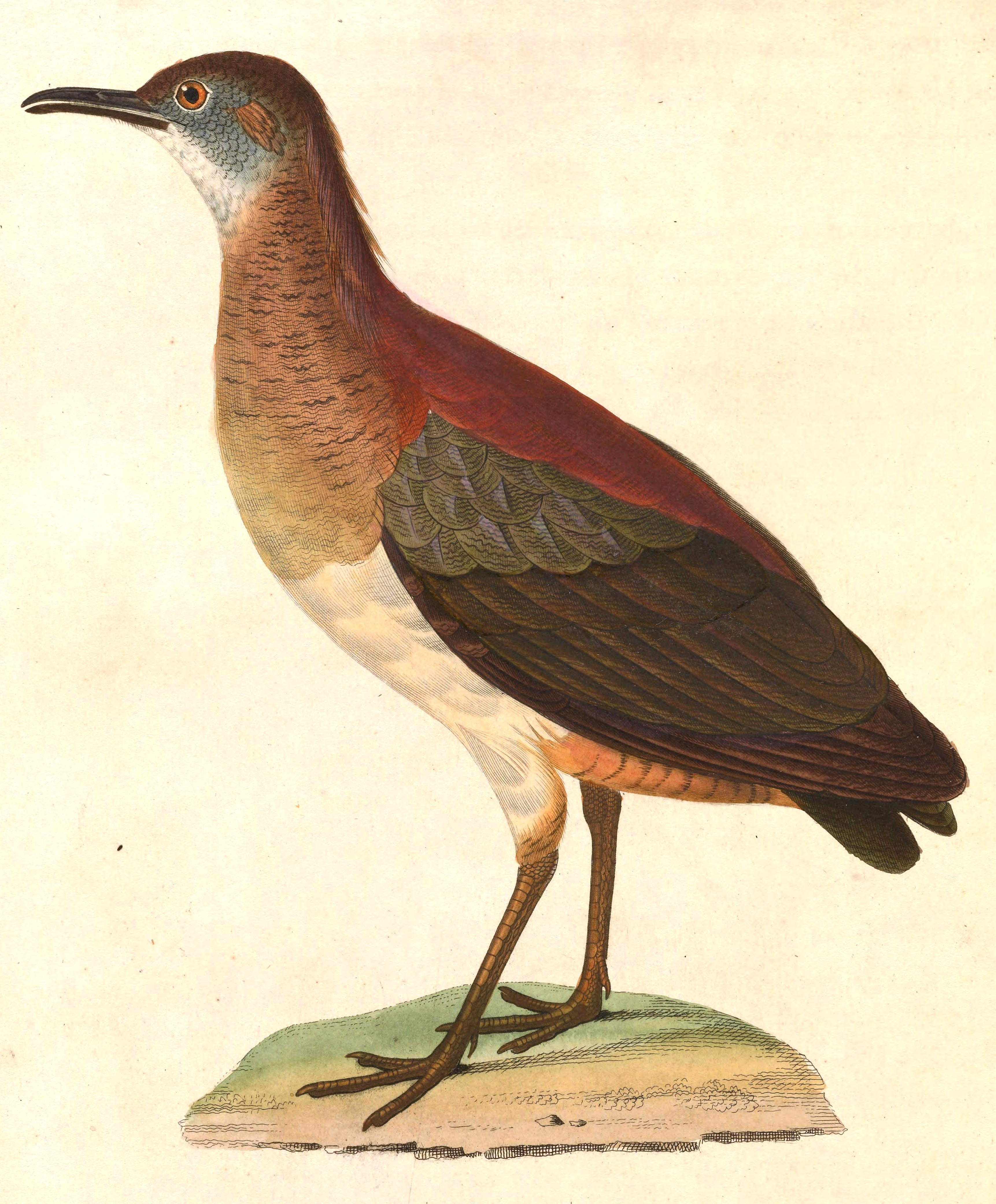 « Tinamus vermiculatus » = Crypturellus undulatus (Undulated Tinamou) - adult